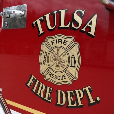 This is a Tulsa fire truck logo I took a photo of while on a call with media.